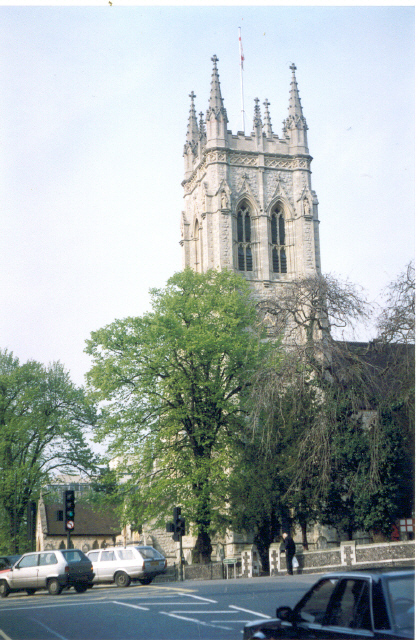 Beckenham. A very pleasant-looking Church in the heart of this Town.